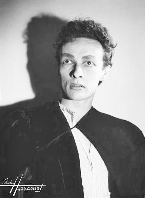 Studio photo